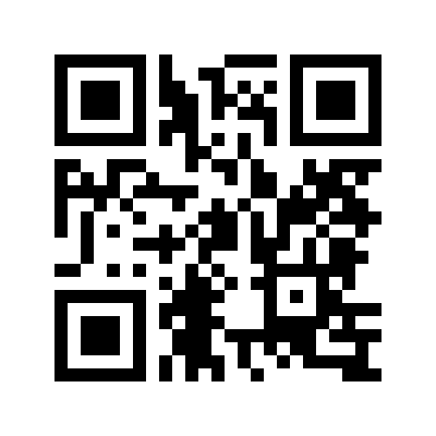 QR code for QRpedia (through QRpedia service)